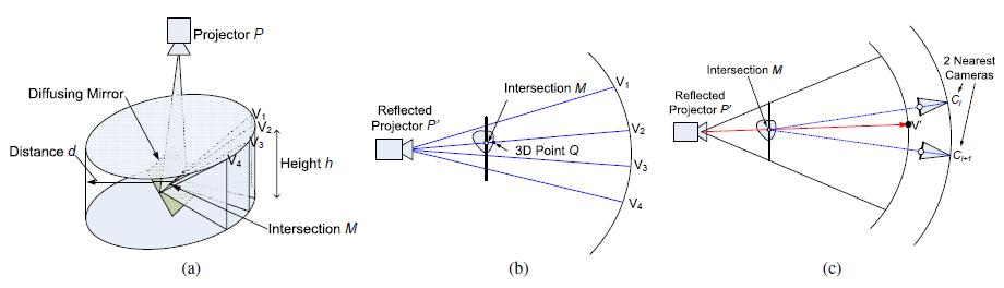 Proyección de gráficos en pantalla